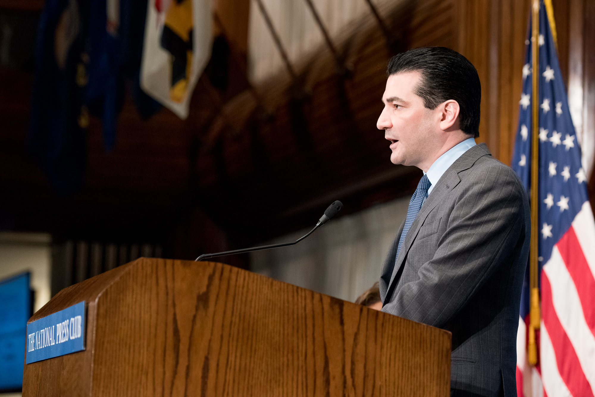 November 3, 2017; FDA Commissioner Dr. Scott Gottlieb delivered the keynote remarks at a National Press Club Headliners Luncheon in Washington, D.C. This photo is in the public domain, free of all copyright restrictions, and available for use and redistribution without permission. Credit to the U.S. Food and Drug Administration is appreciated but not required. Photo for FDA by Andrew Propp